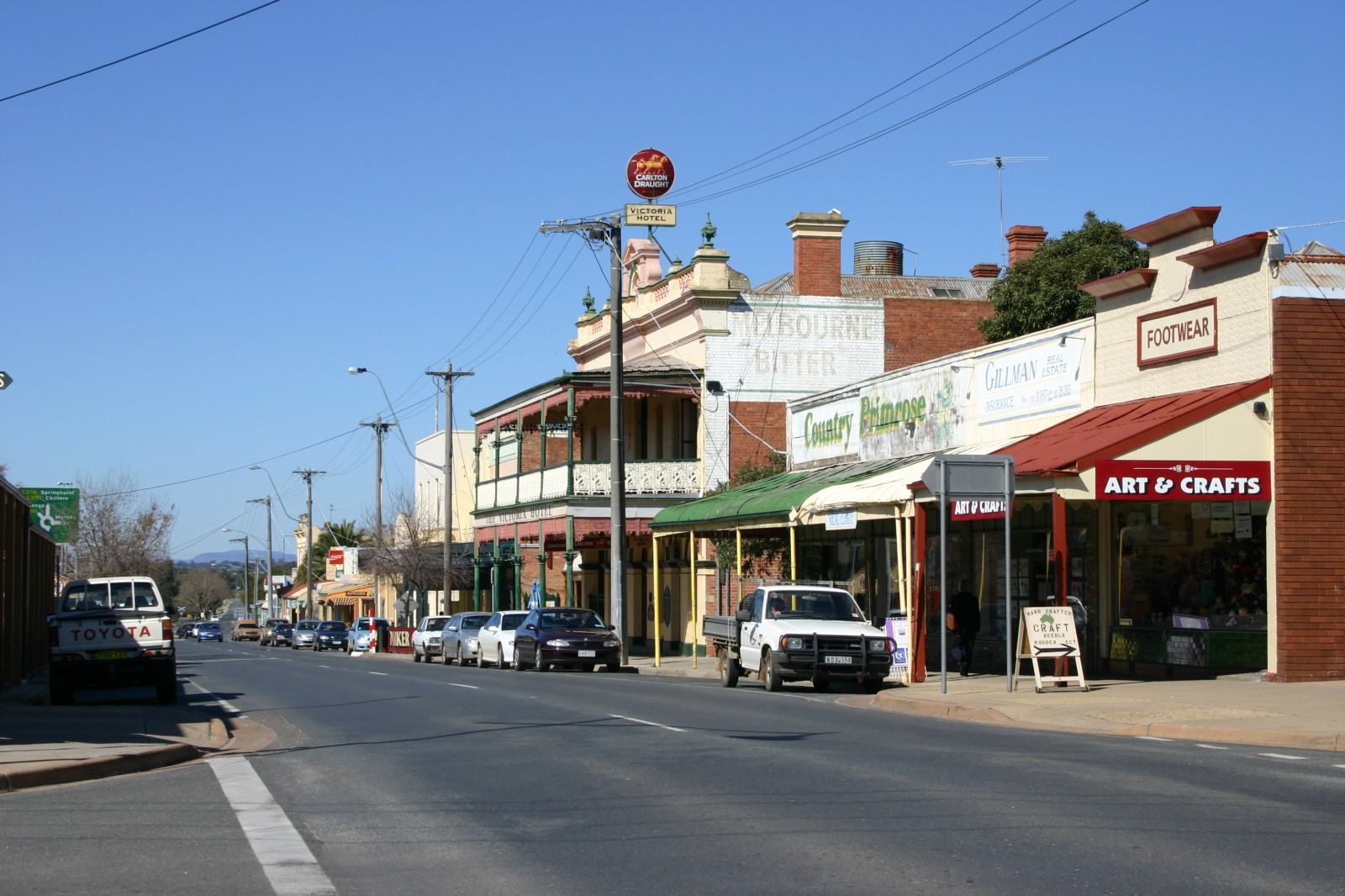 Argyll (main) street of Rutherglen, with the heritage listed Victoria Hotel featured. I took this photo on 25 August 2005. Takver - Released under GNU FDL copyright.